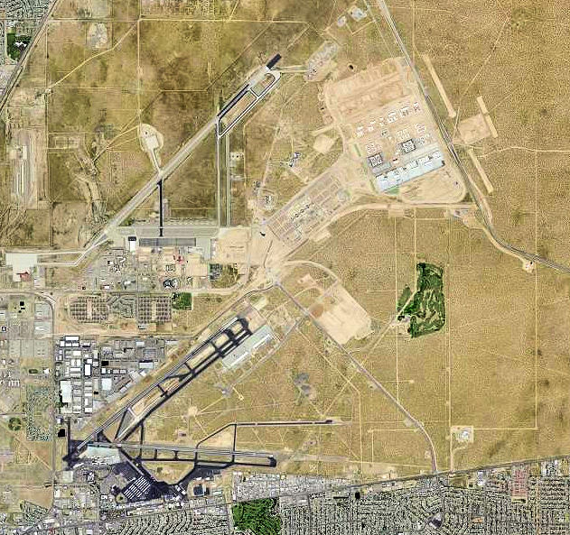 USGS digital orthophoto of Biggs Army Airfield (upper portion), north of El Paso International Airport (lower portion), in Texas, United States.